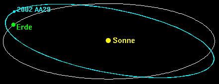 Orbits of 2002 AA29 and Earth around the Sun viewed from the side. The graphic shows the relative positions of both bodies to each other in year 2003.